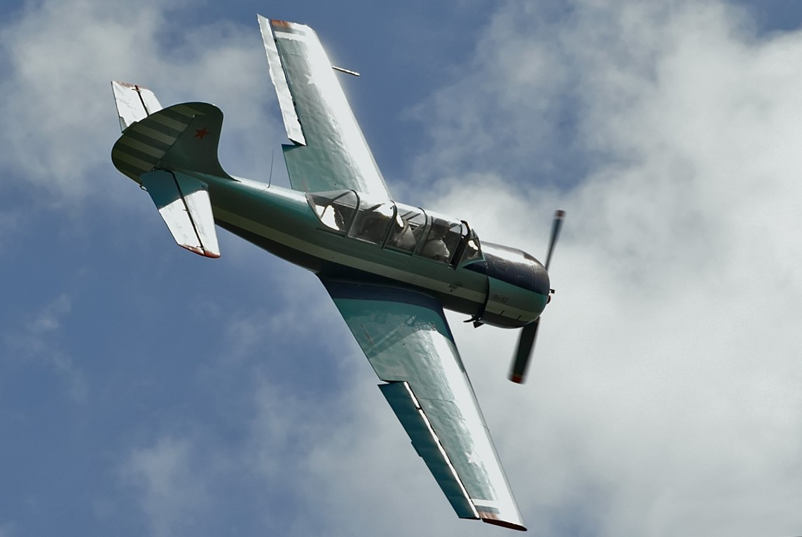 A Yak-52 rolling counter-clockwise during acrobatic flight